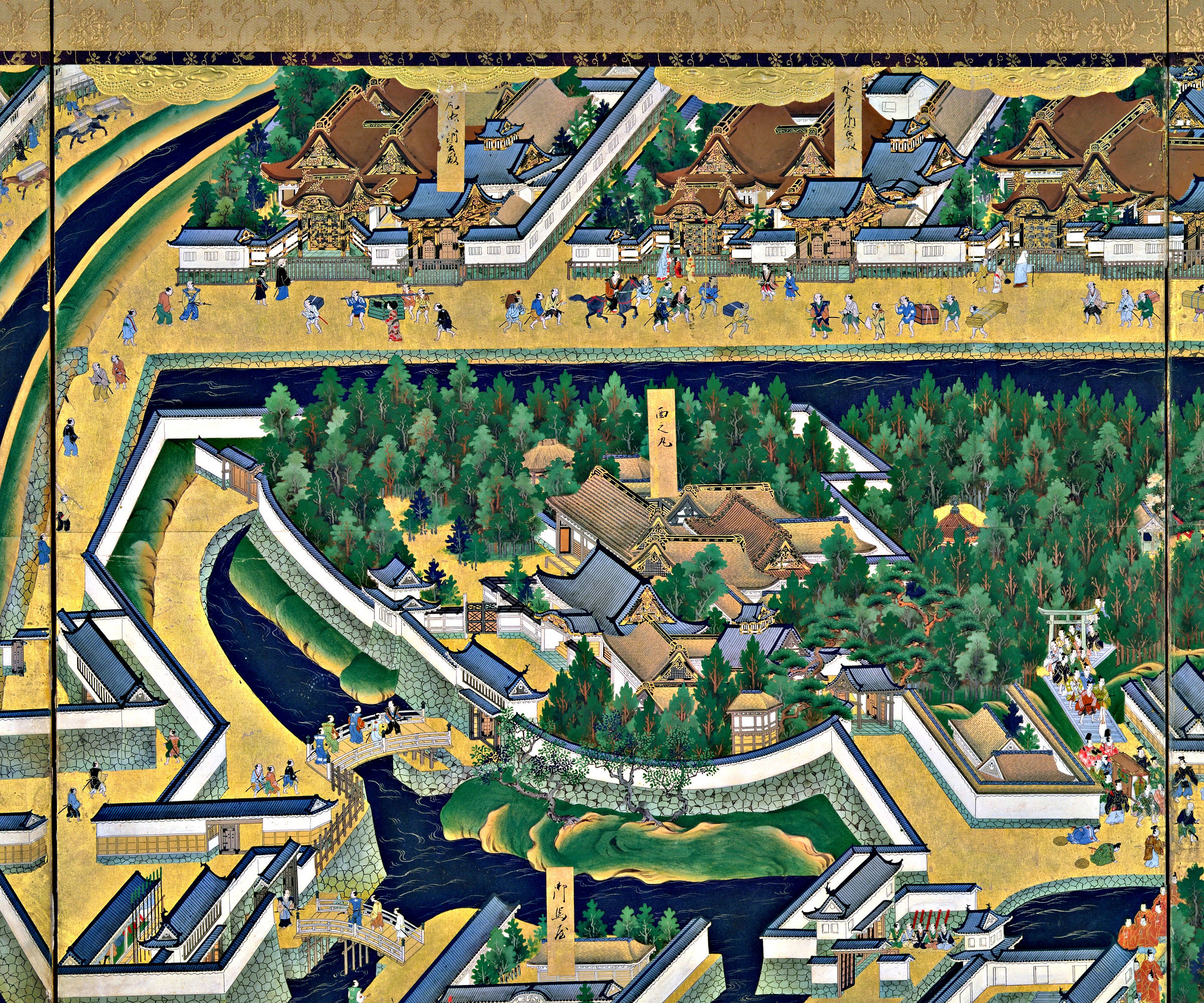 View of Edo, left screen. pair of six-panel folding screens (17th century). TOP OF SECOND PANEL, Left Screen West enciente and Fukiage of Edo Castle, Castle residences of the three Tokugawa families, Palanquin carriers (in front of Owari Dainagon residence).